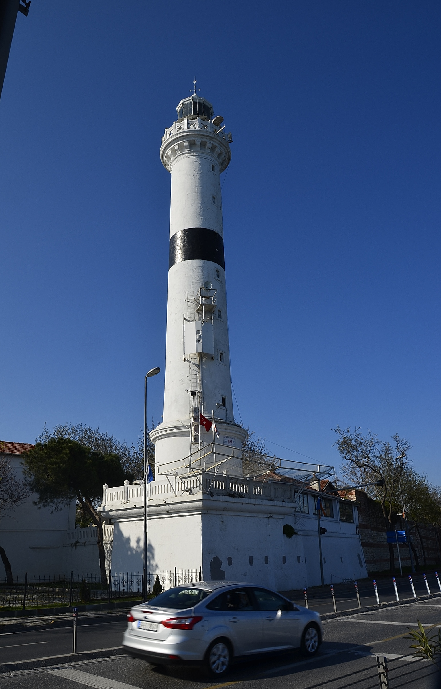 Ahırkapı Lighthouse at the southern entrance of Bosphorus in Istanbul